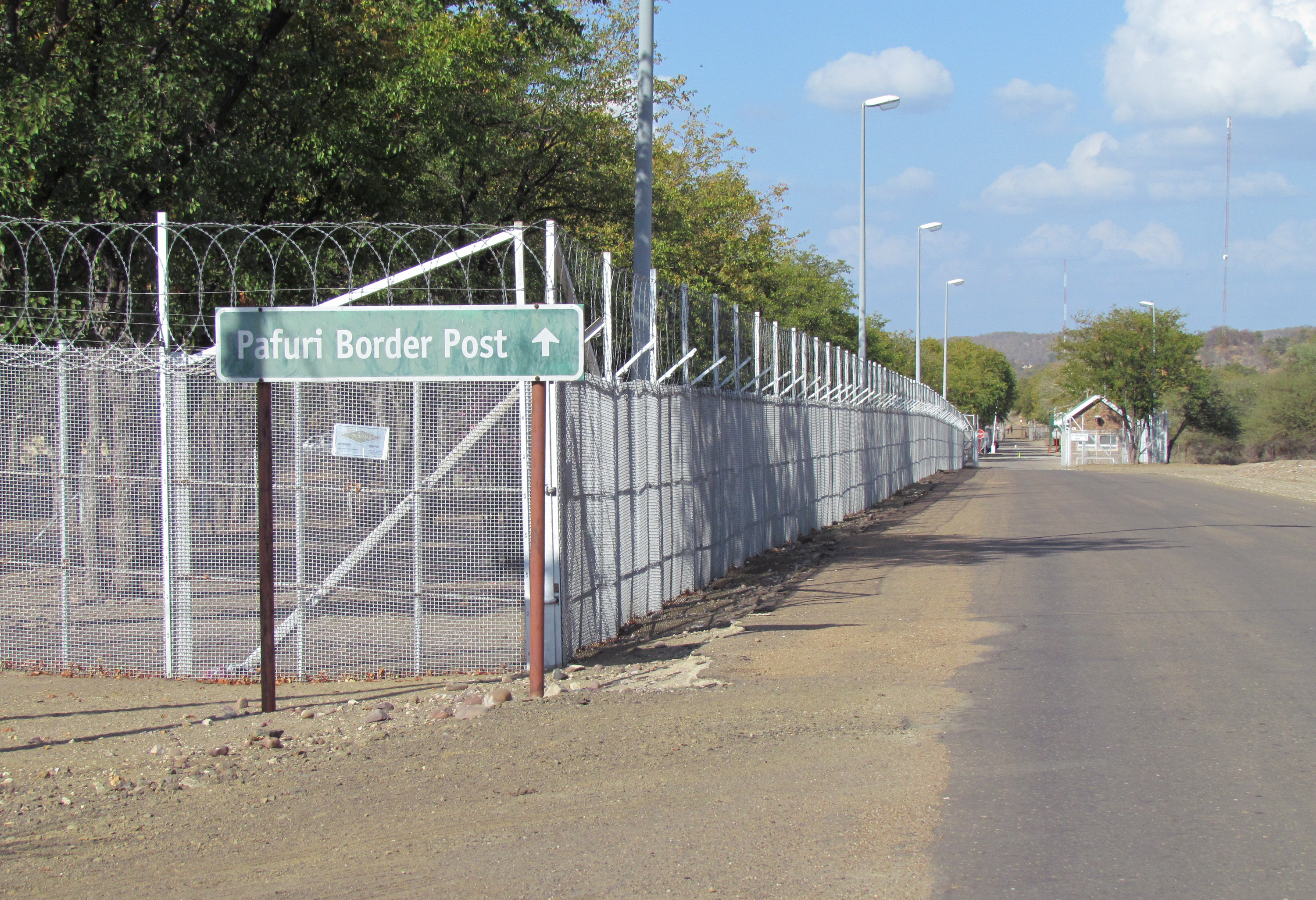 Pafuri Border Post. South African side.